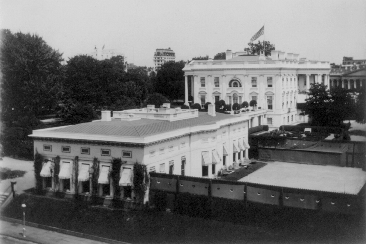 White House Office Building, and tennis court, where the Roosevelt "Tennis Cabinet" met.